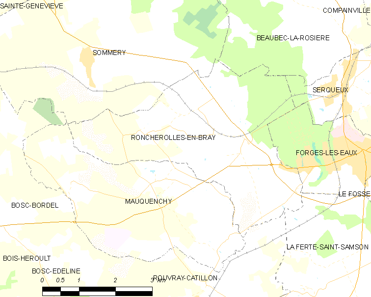 Map of French municipality Roncherolles-en-Bray